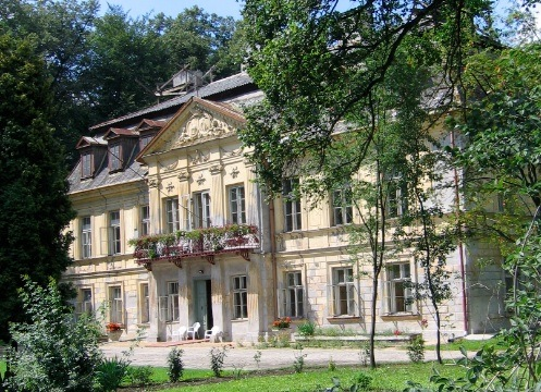 The Palace at Naklo is an example of late 18th century neoclassical architecture. Designed by economist, engineer and architect Jan Ferdynand Nax, the palace's construction was completed in 1780.